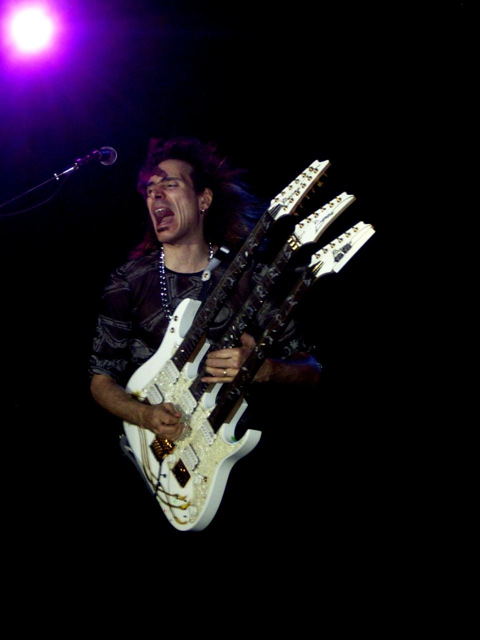 Steve Vai playing his triple-neck Ibanez JEM guitar at a show in Madrid, Spain in 2004